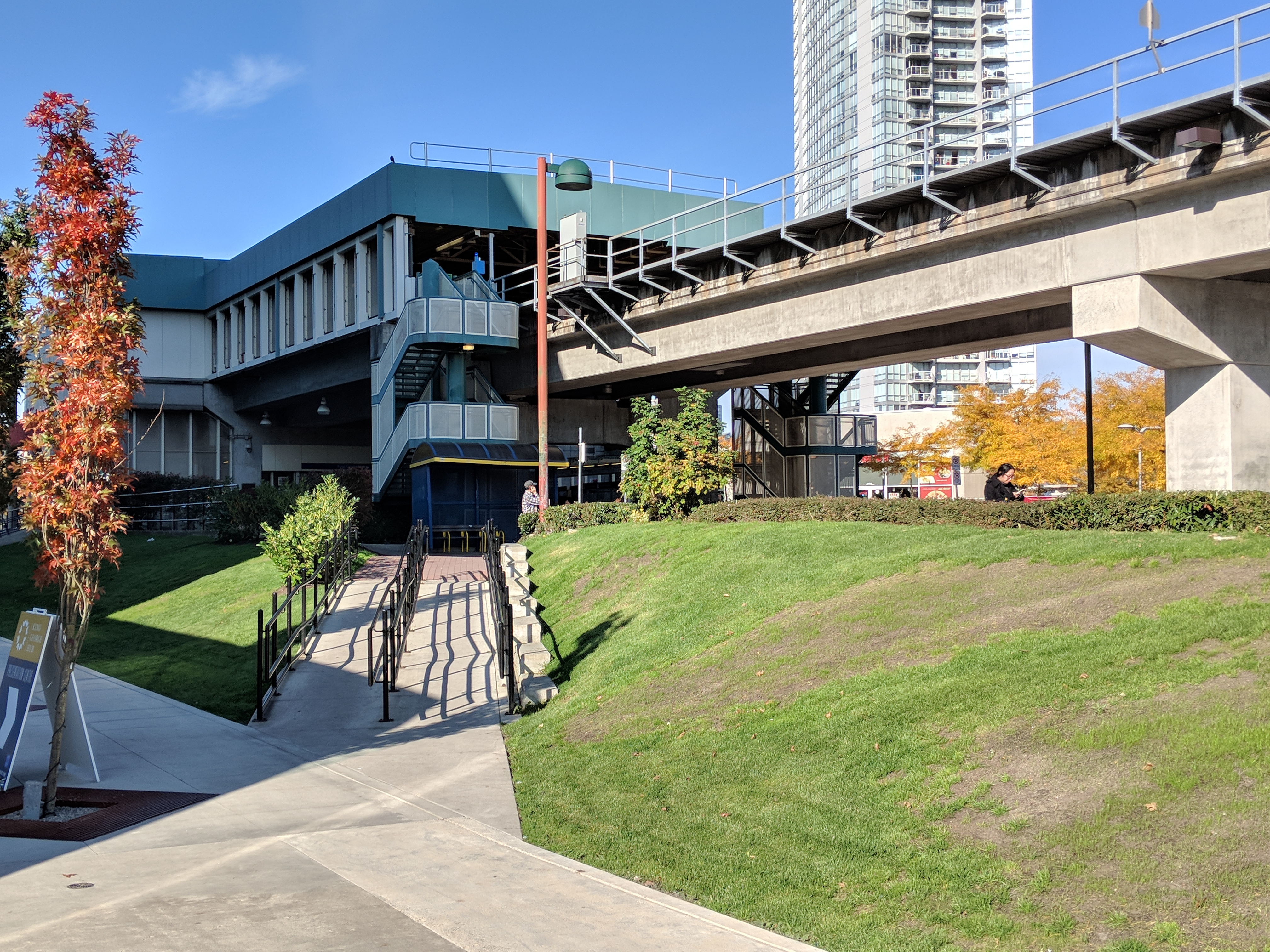 King George SkyTrain station